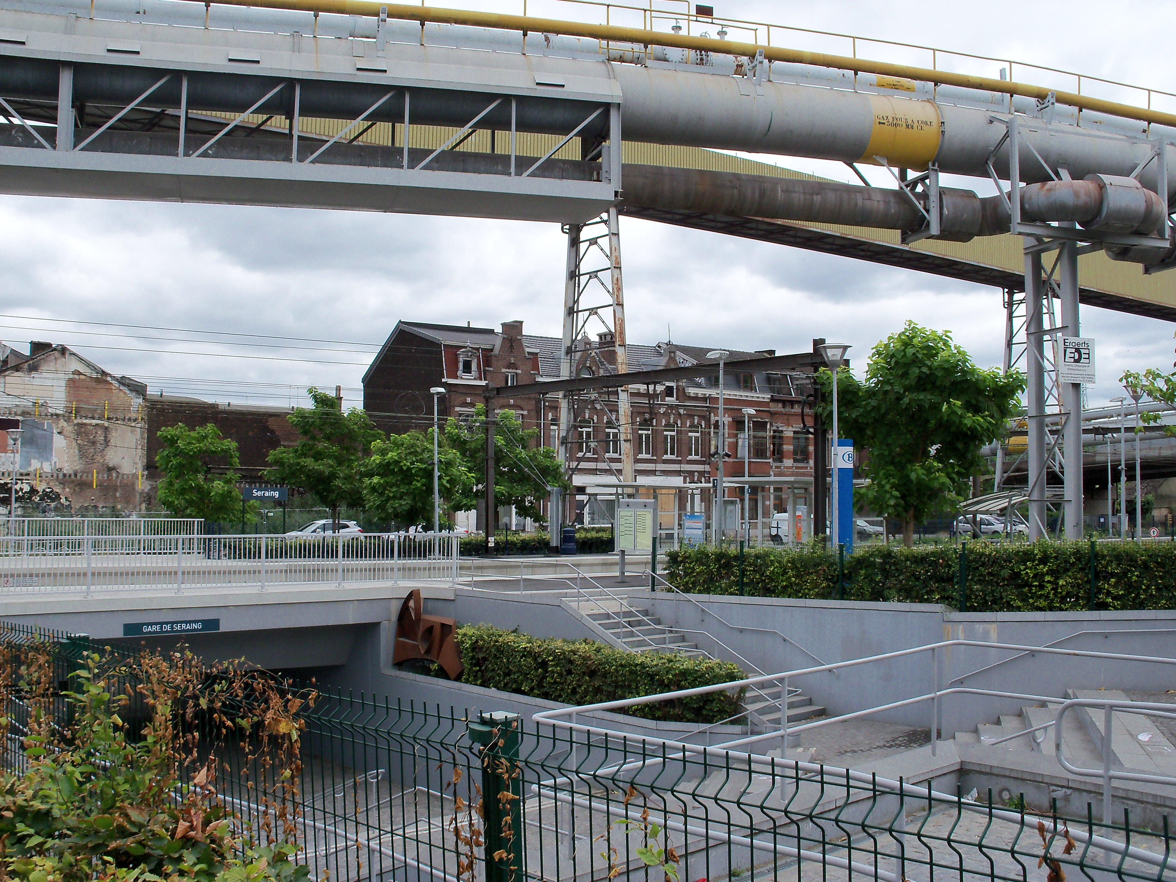 Seraing train station